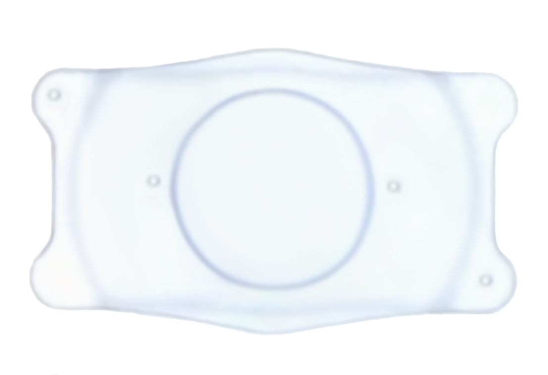 Implantable Contact Lens